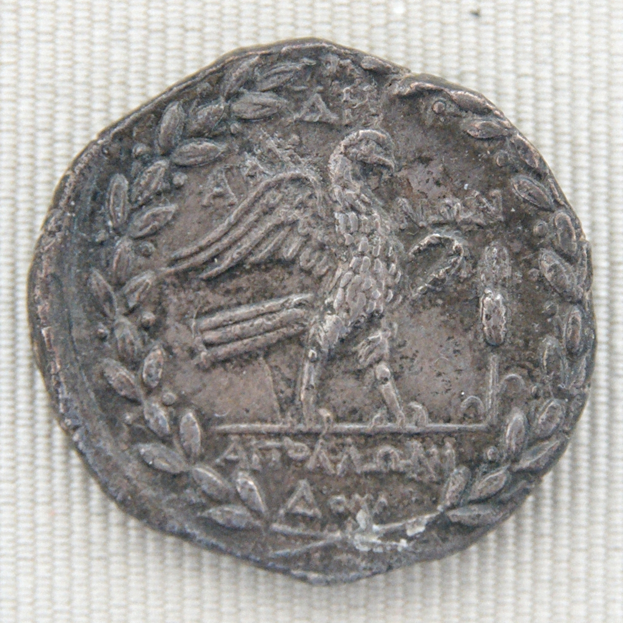 Silver tetradrachm issued by the city of Abydos, ca. 160–140 BC, reverse: eagle standing right with spread wings, corn stalk before.